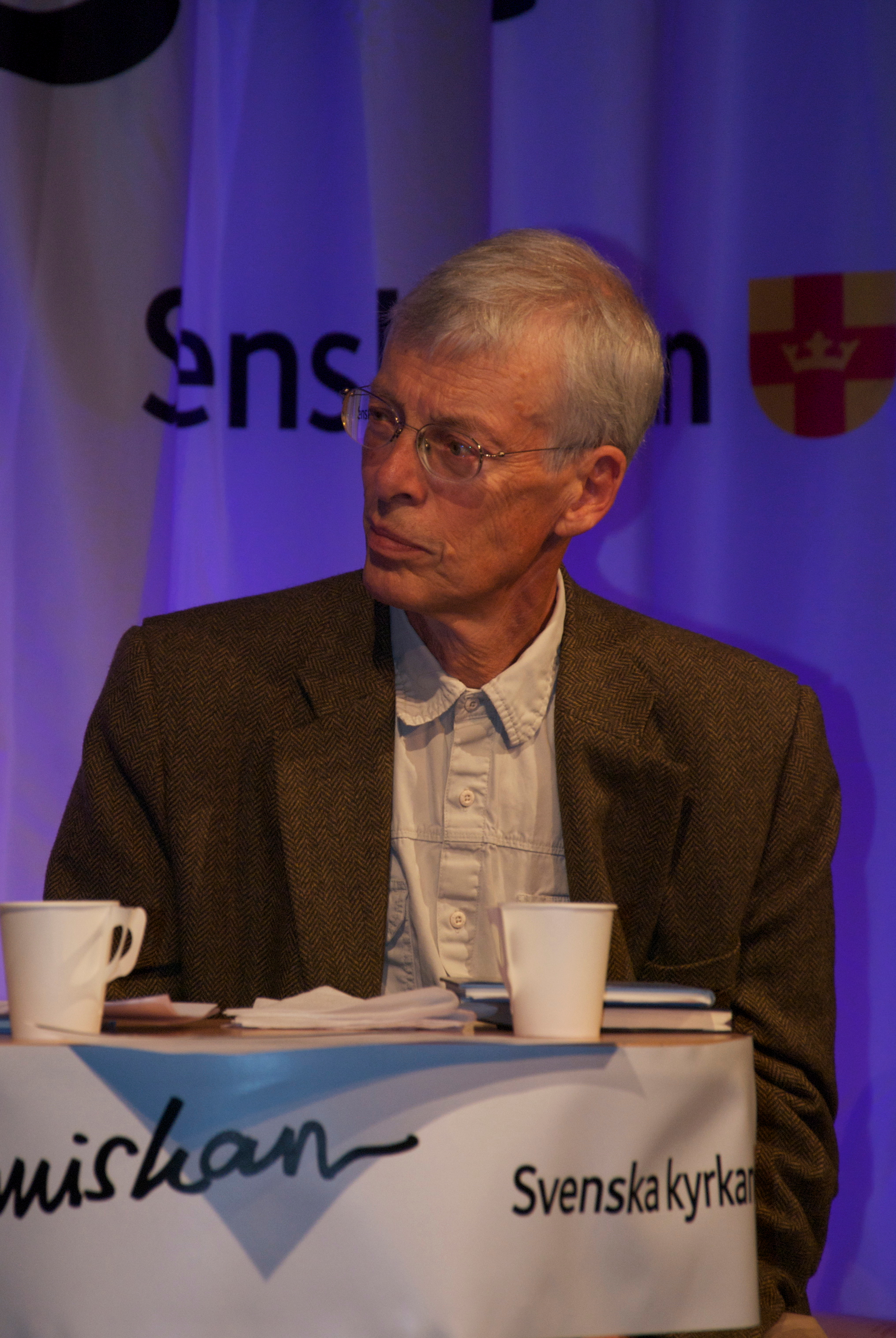 Jesper Svenbro at Göteborg Book Fair 2011.